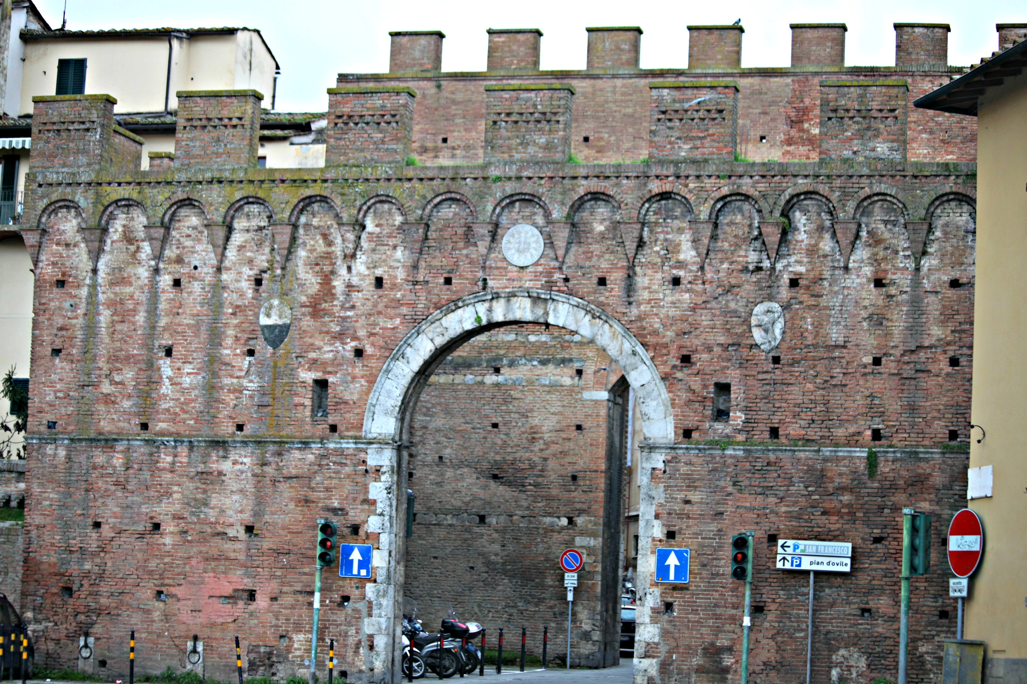 Porta a Ovile